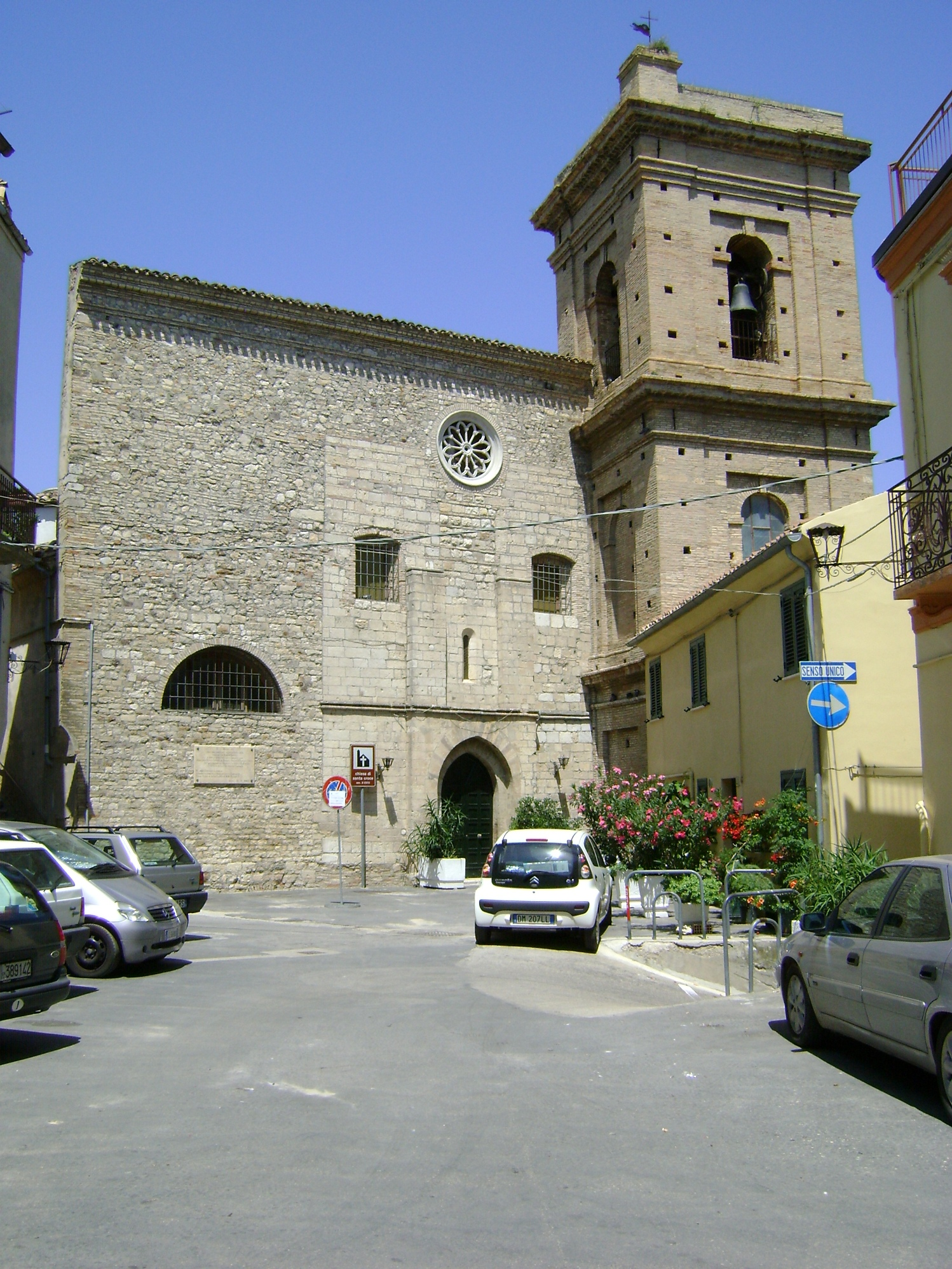 The church of Saint Cross, Atessa, province of Chieti, Abruzzo